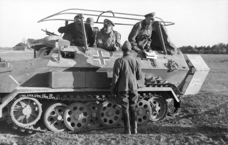 Information added by Wikimedia users.They are member of the 1. Panzer-Division[1]